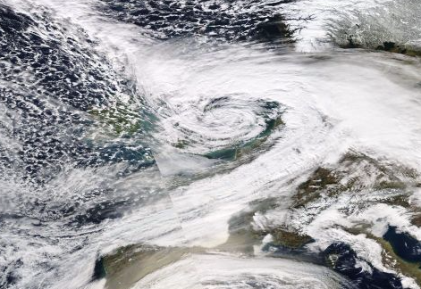 Storm Doris of the 2016–17 UK and Ireland windstorm season on 23 February 2017.